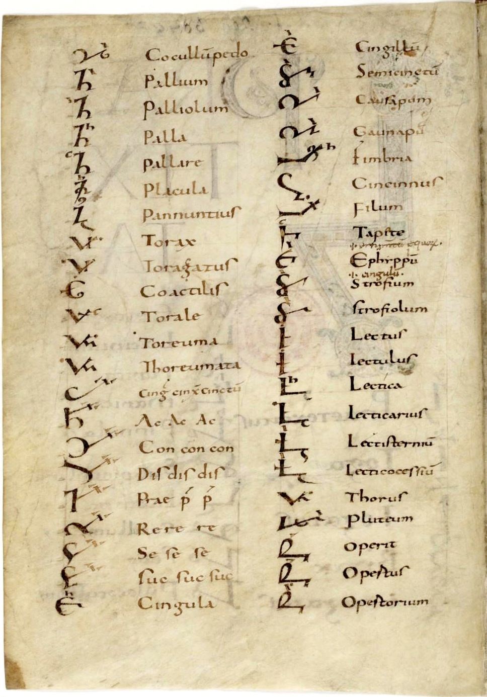 Fist page of the Commentarii notarum tironianarum (800-850).